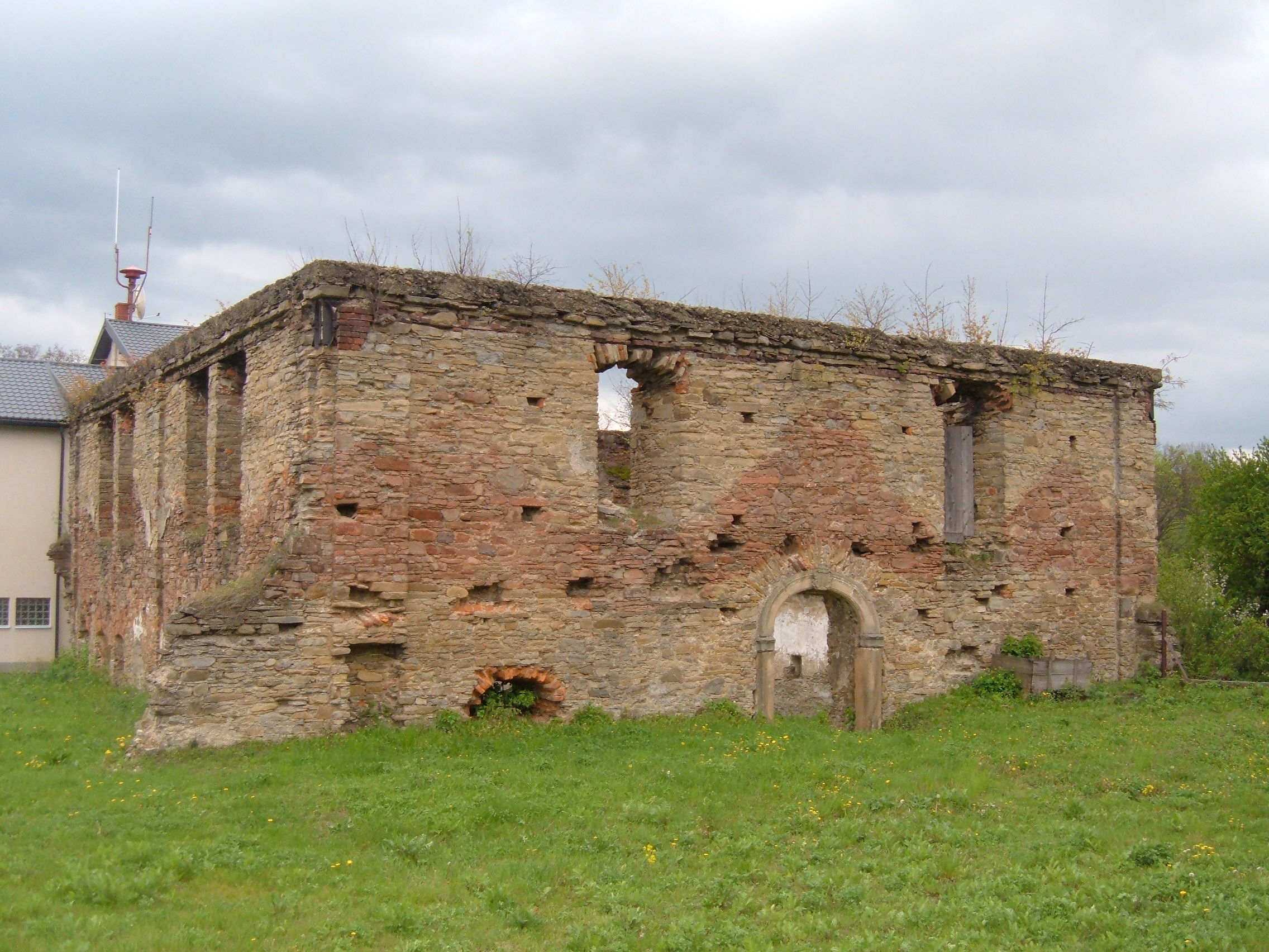 New Synagogue in Dukla